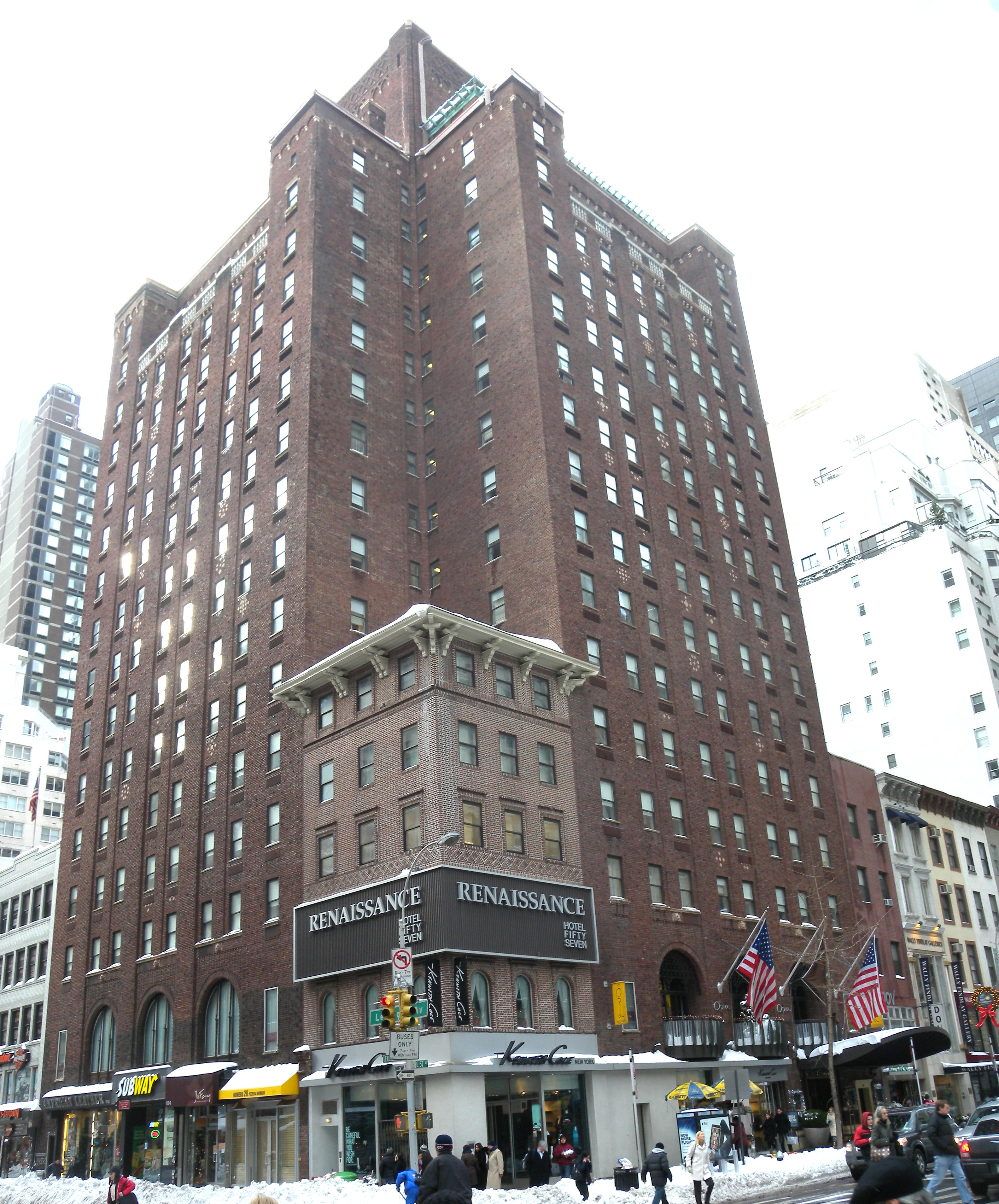 Looking southwerst at Marriott Renaissance Hotel Fifty Seven, former Allerton Hotel for Women, after snow.